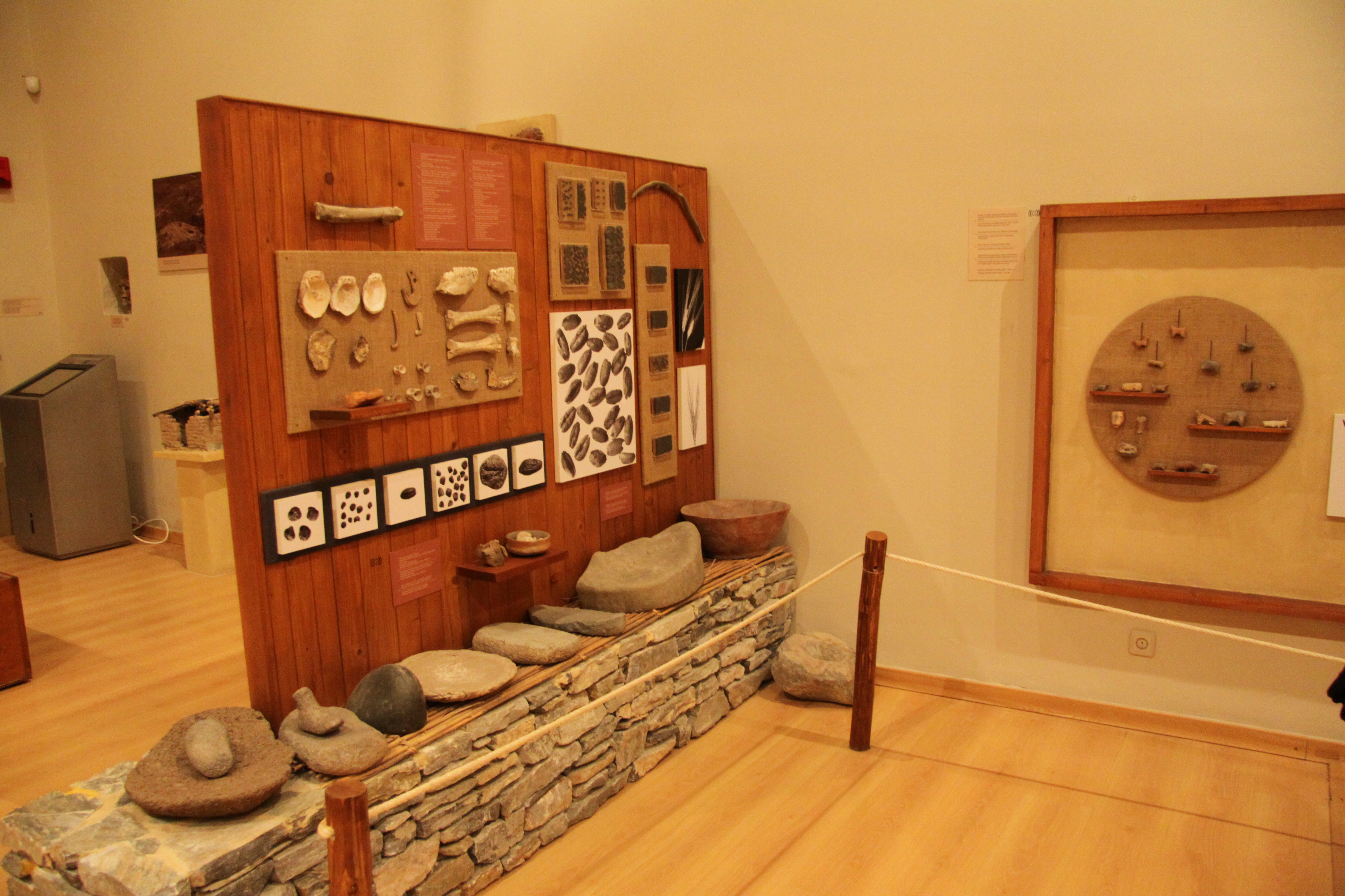 Neolithic exhibition